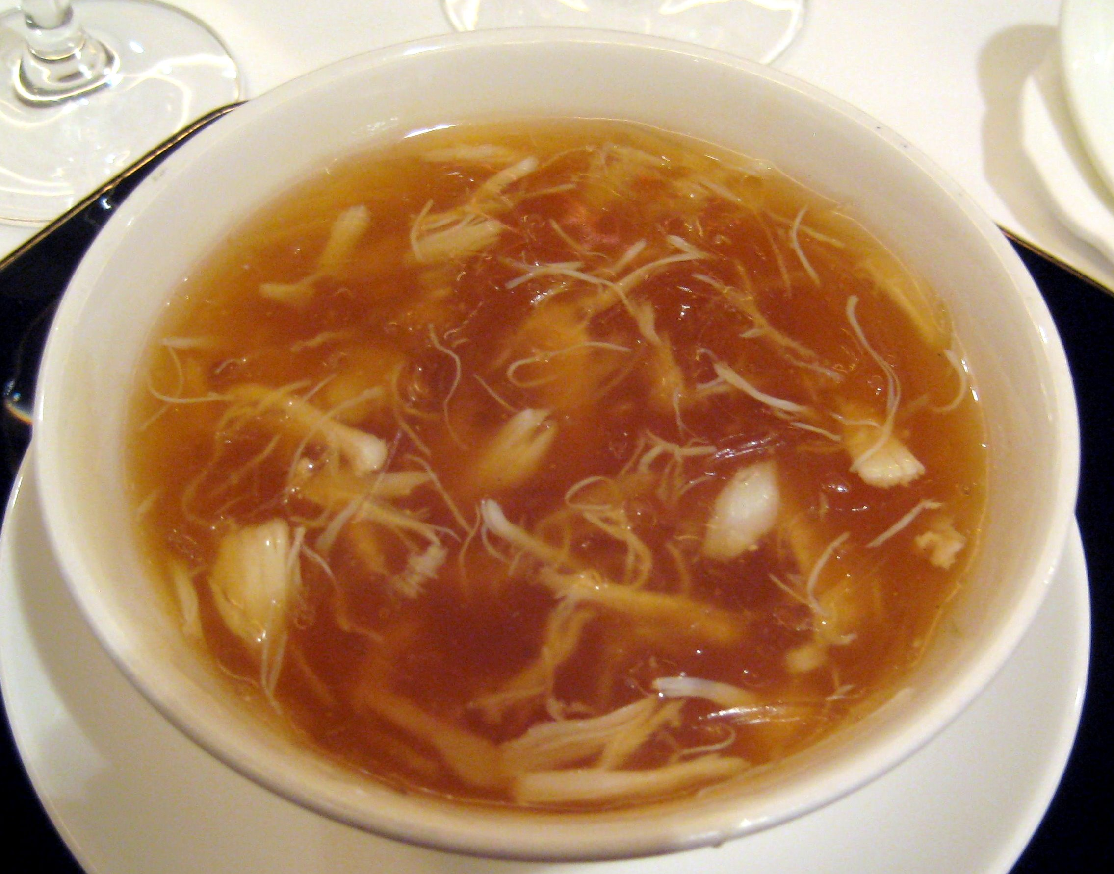 Served at T'ang Court